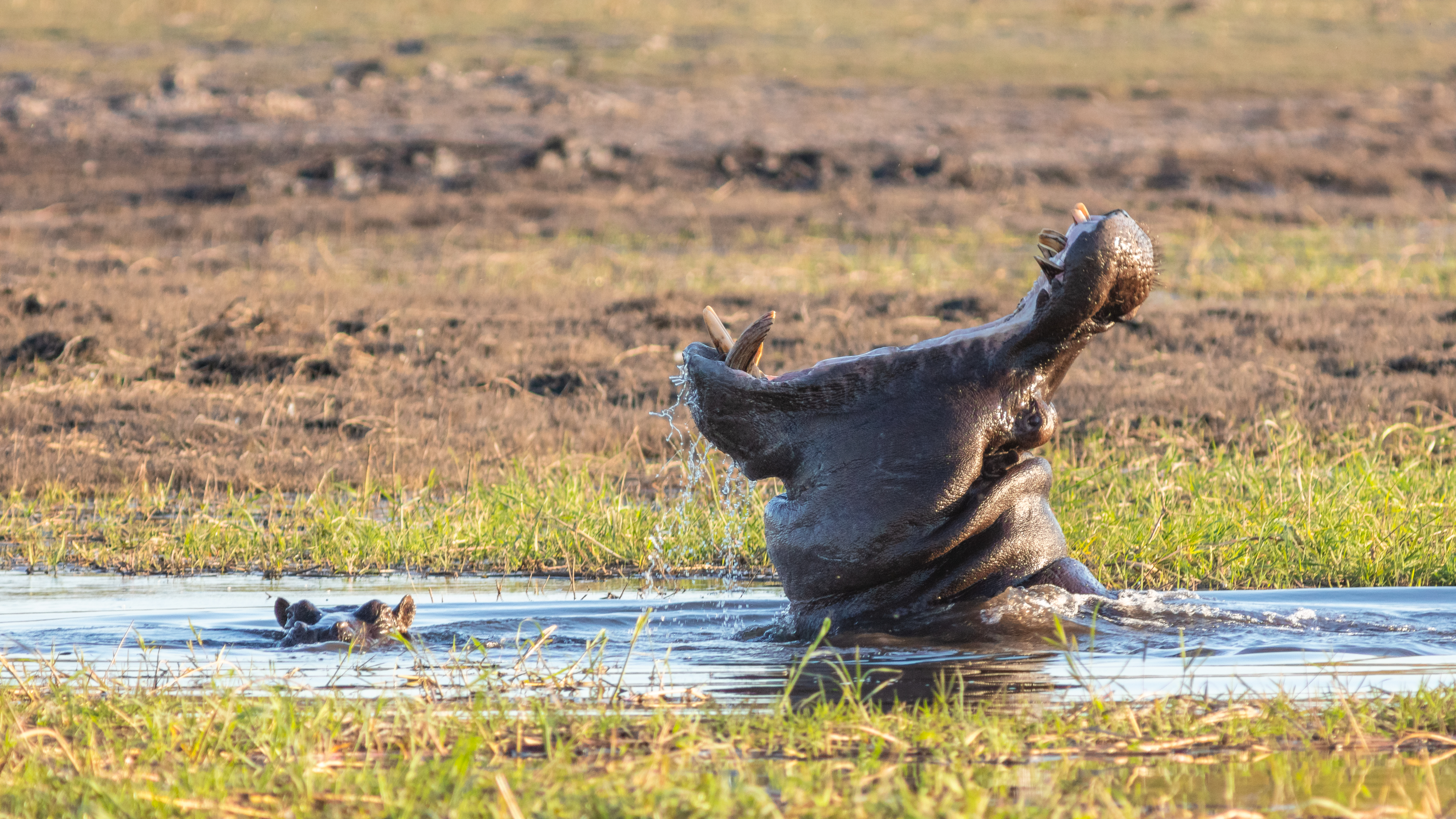 Hippos (Hippopotamus amphibius), Chobe National Park, Botswana.